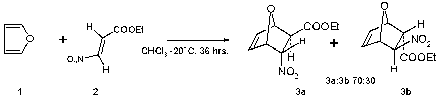 Furan cycloaddition